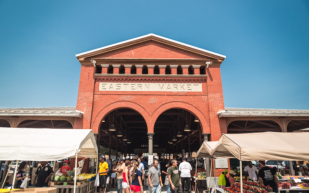 Eastern Market District, Shed 2 Saturday Market